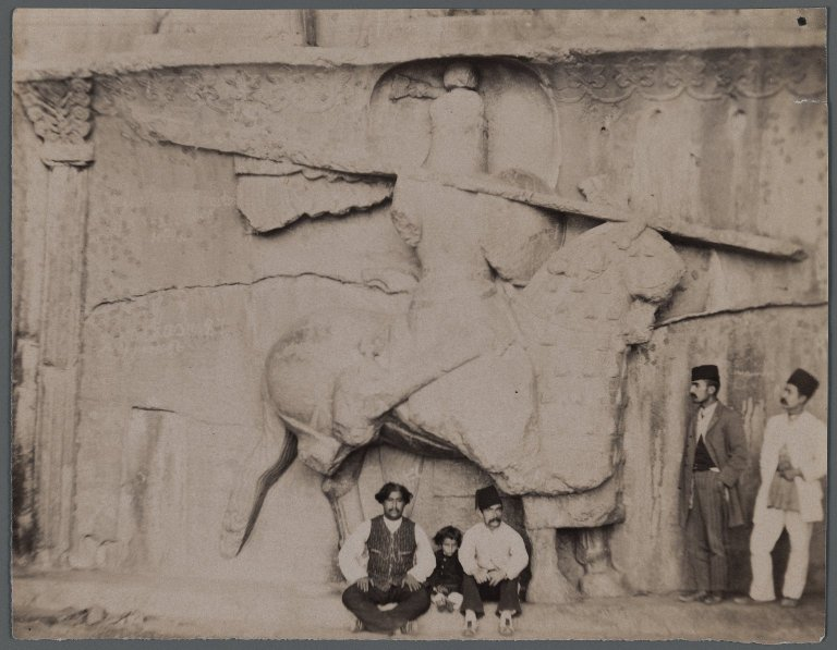 An old photo taken at Taq Bostan, Kermanshah durin Qajar period